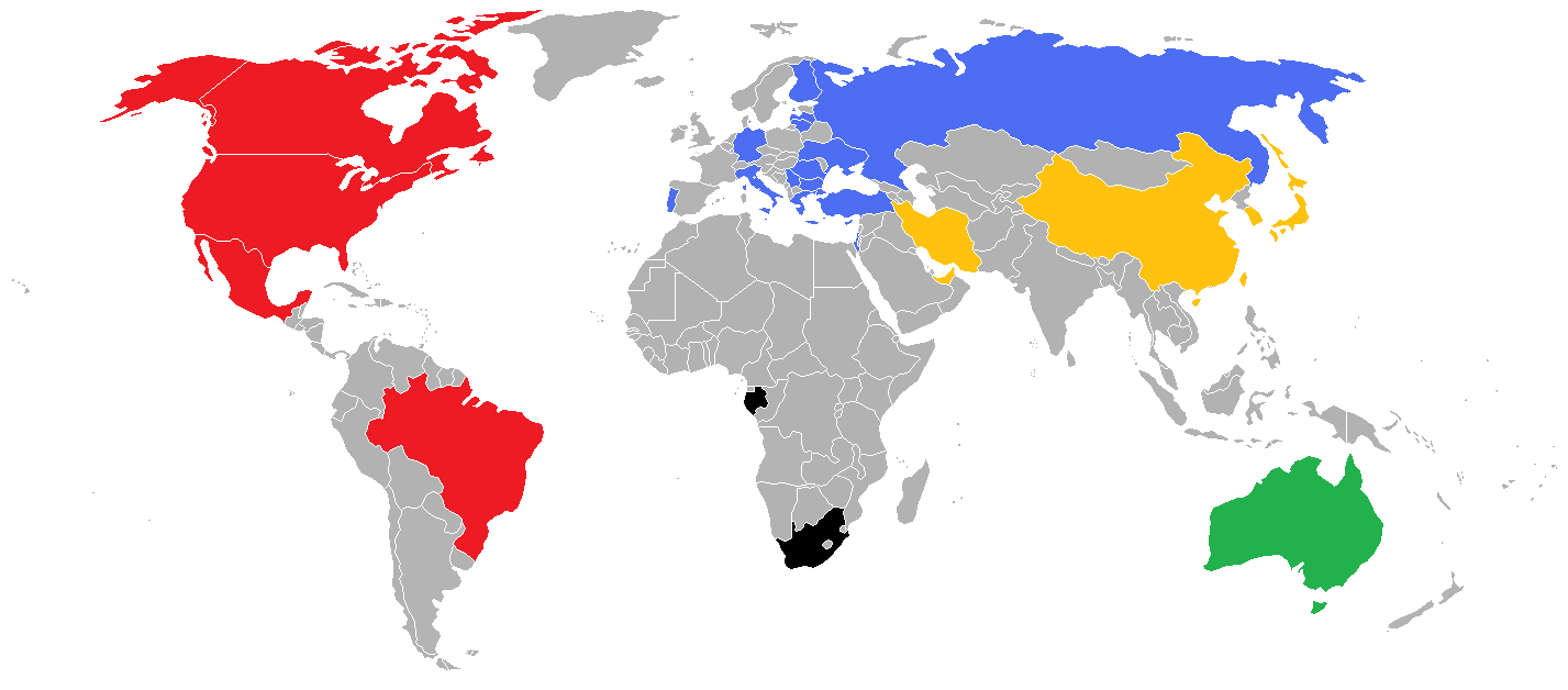 Men's_basketball_-_universiade_2009_-_teams